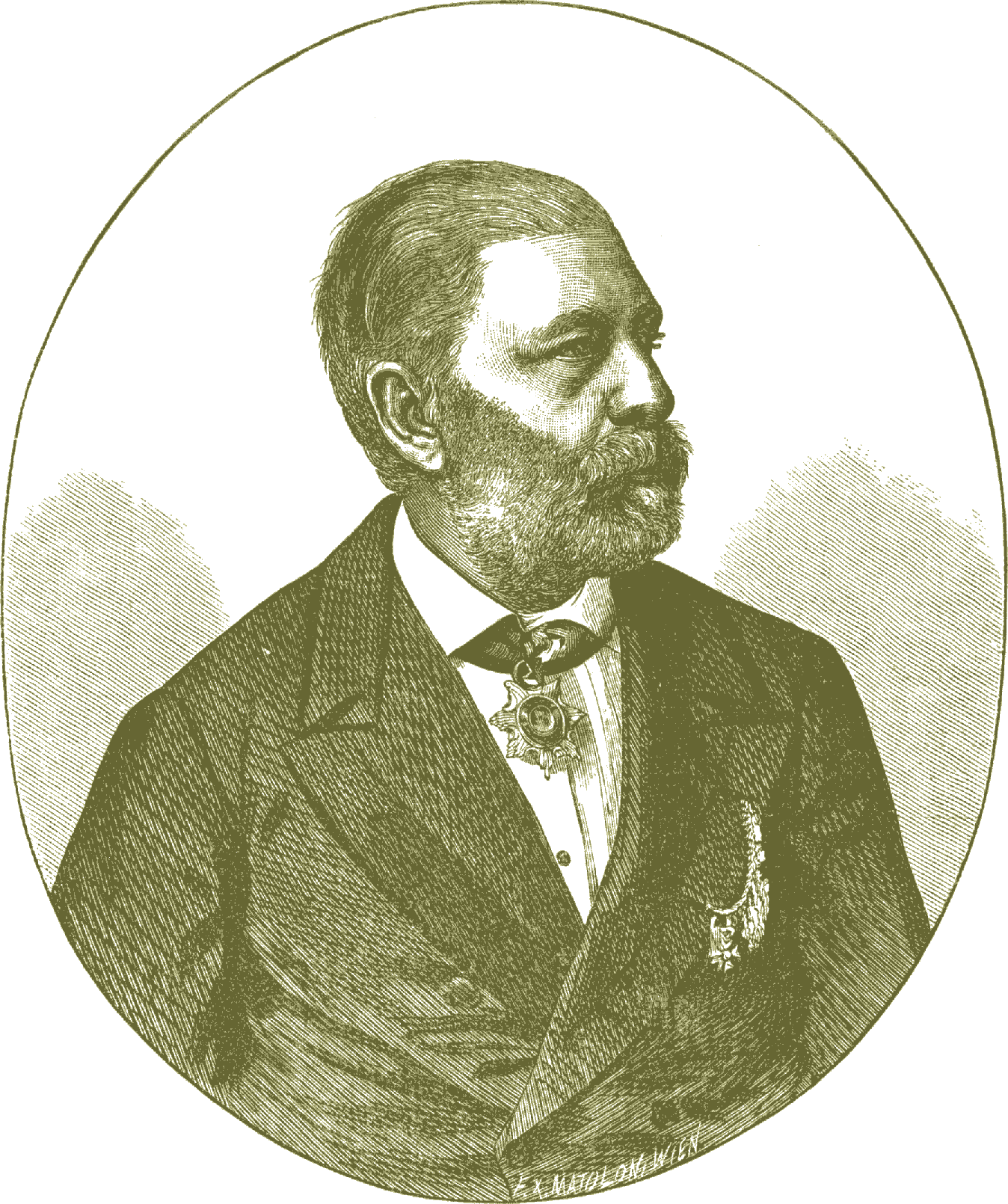 Carl Ludwig Ritter von Posner (Karoly Lajos Posner;1822–1887), Hungarian book binder, paper manufacturer and publisher